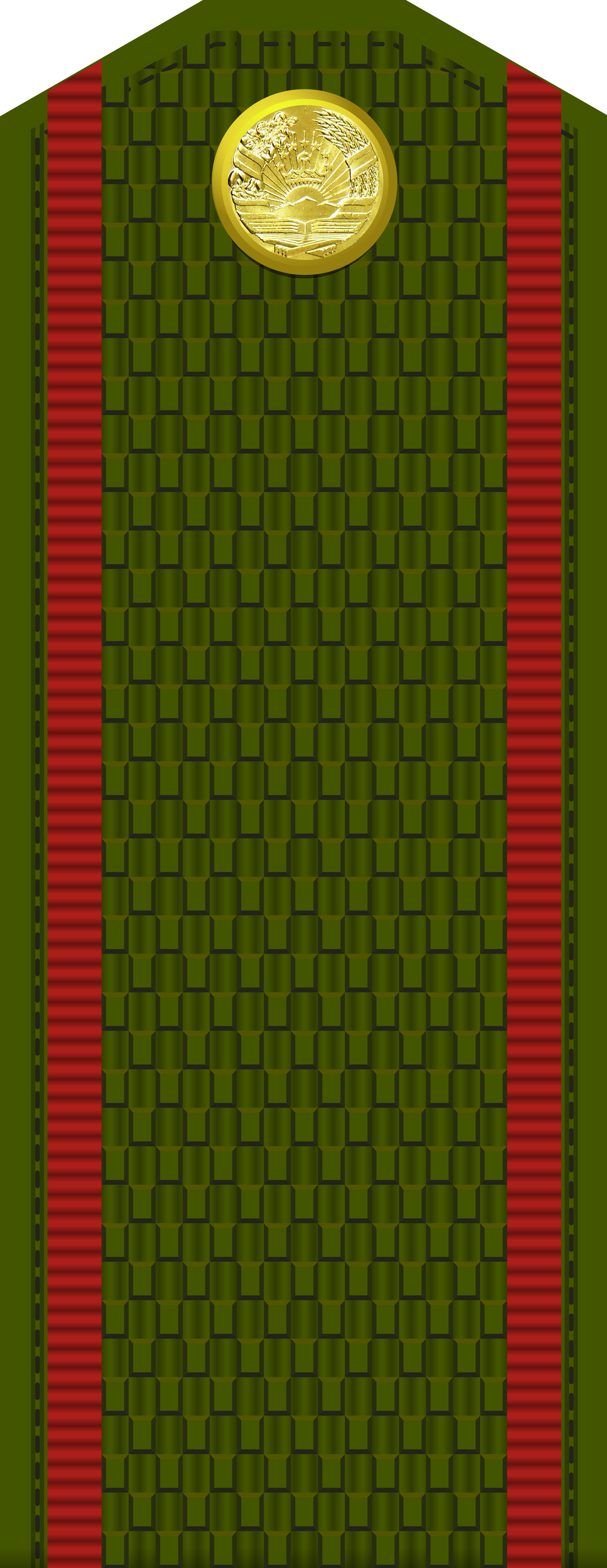 Тоҷикӣ: Rank insignia of Private for the Tajikistan Army